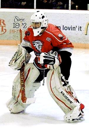 These images of OHA Jr. C action during the 2012-13 season are taken by Devan Mighton.